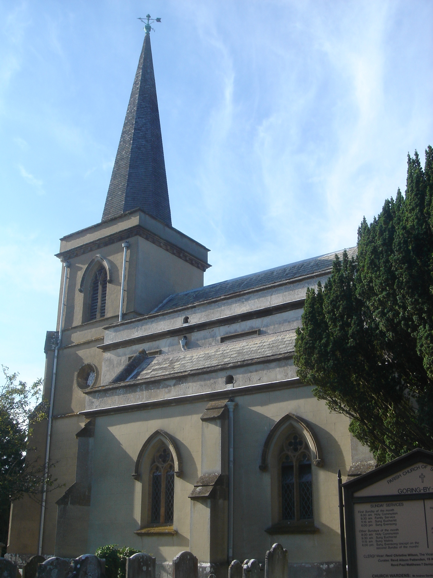 West tower, spire and part of the south aisle of St Mary's parish church, Goring-by-Sea, Worthing, West Sussex, seen from the southeast